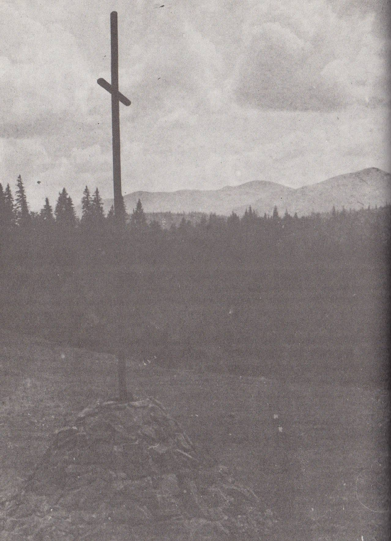 Cross at Pass Rogodze near Rafajlova - formerly Pass of Legions